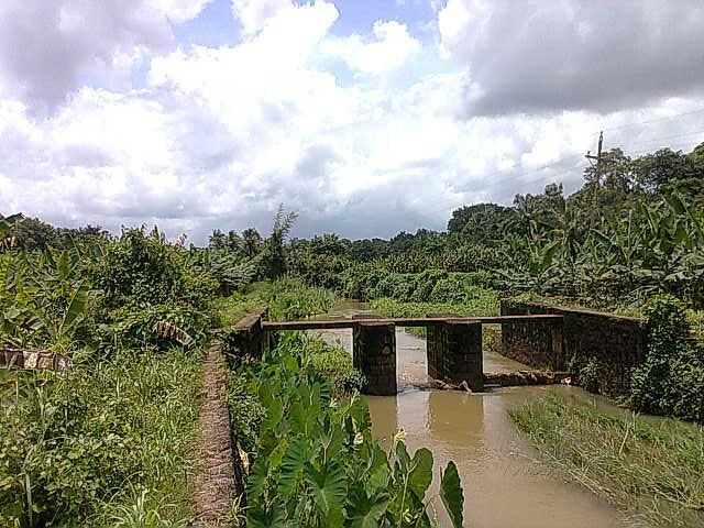 photo taken by me device nokia x3